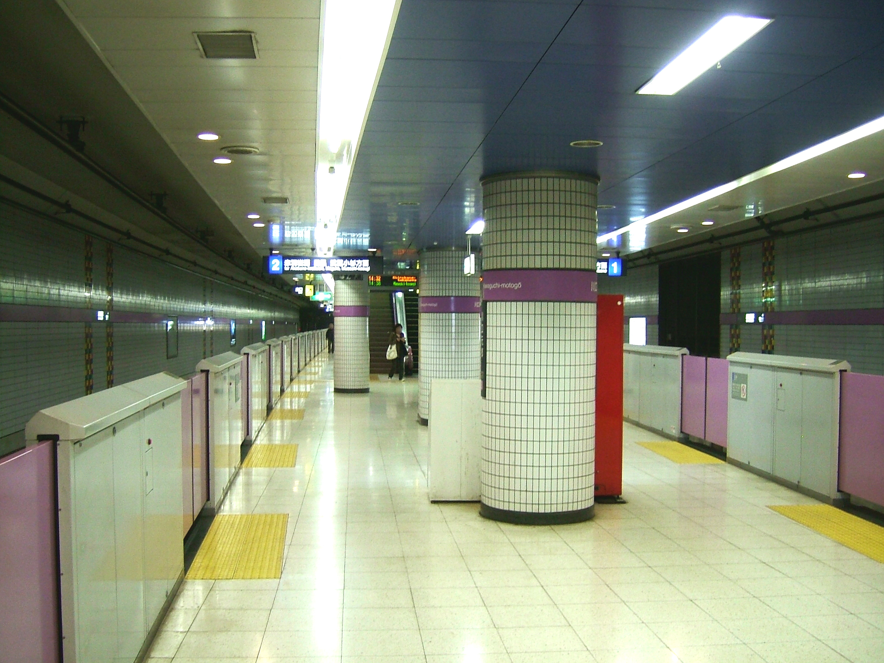 The platforms at Kawaguchi-Motogo Station on the Saitama Rapid Railway Line